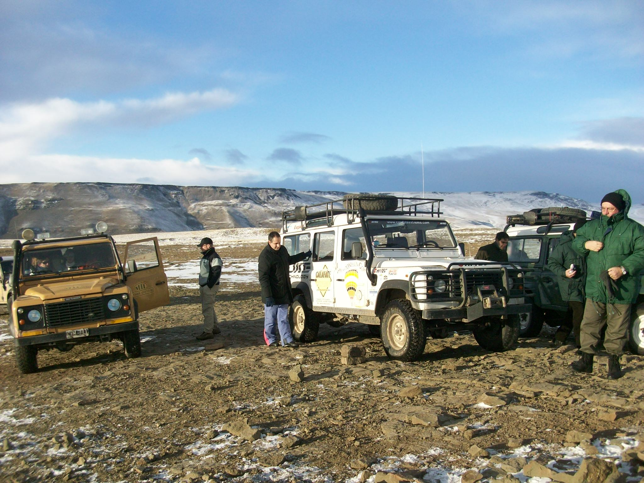 Four Defenders got together